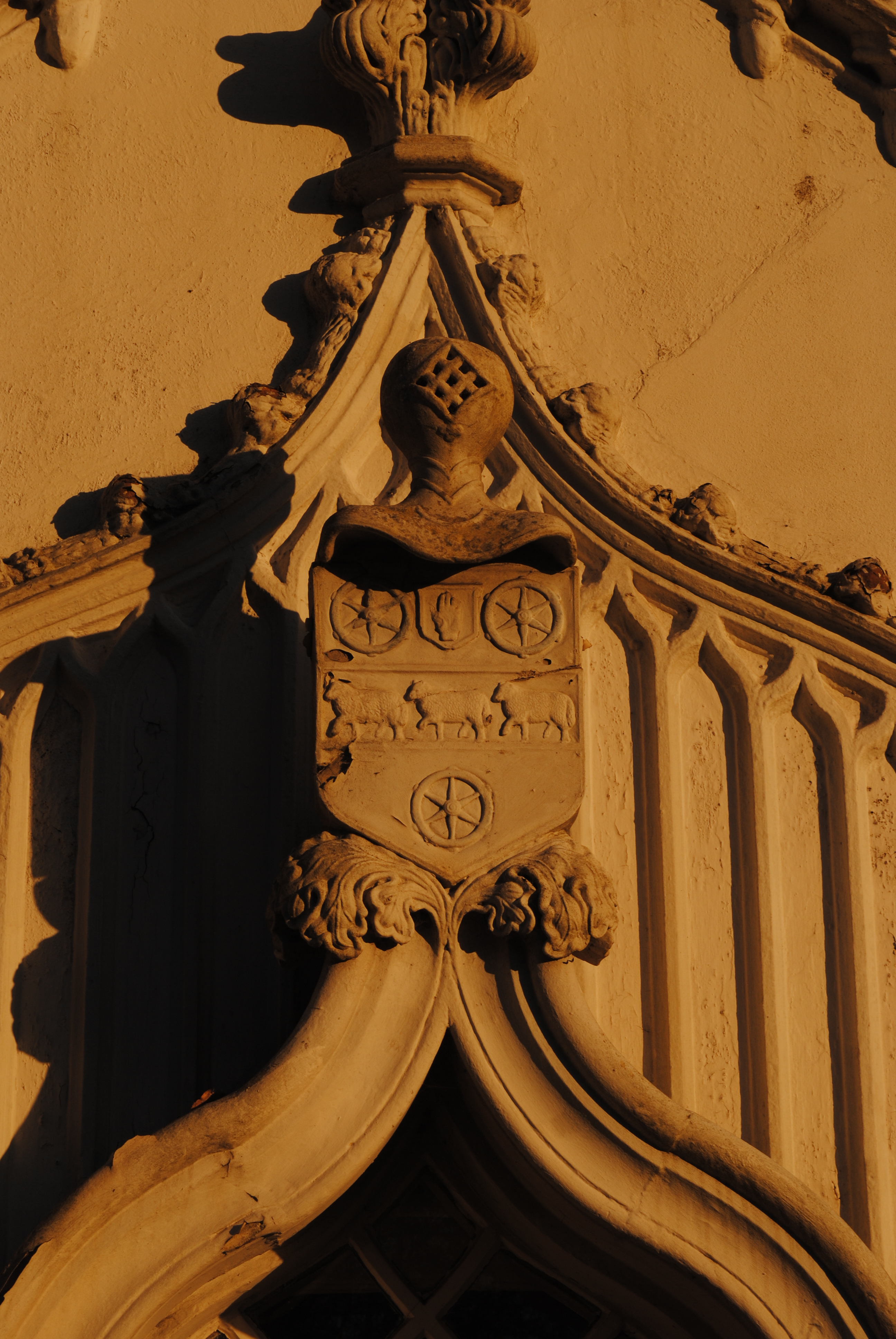 Handsworth Lodge, Queslett Road, Great Barr, West Bromwich, England. The Lodge served Great Barr Hall. Photographed in low winter sun.